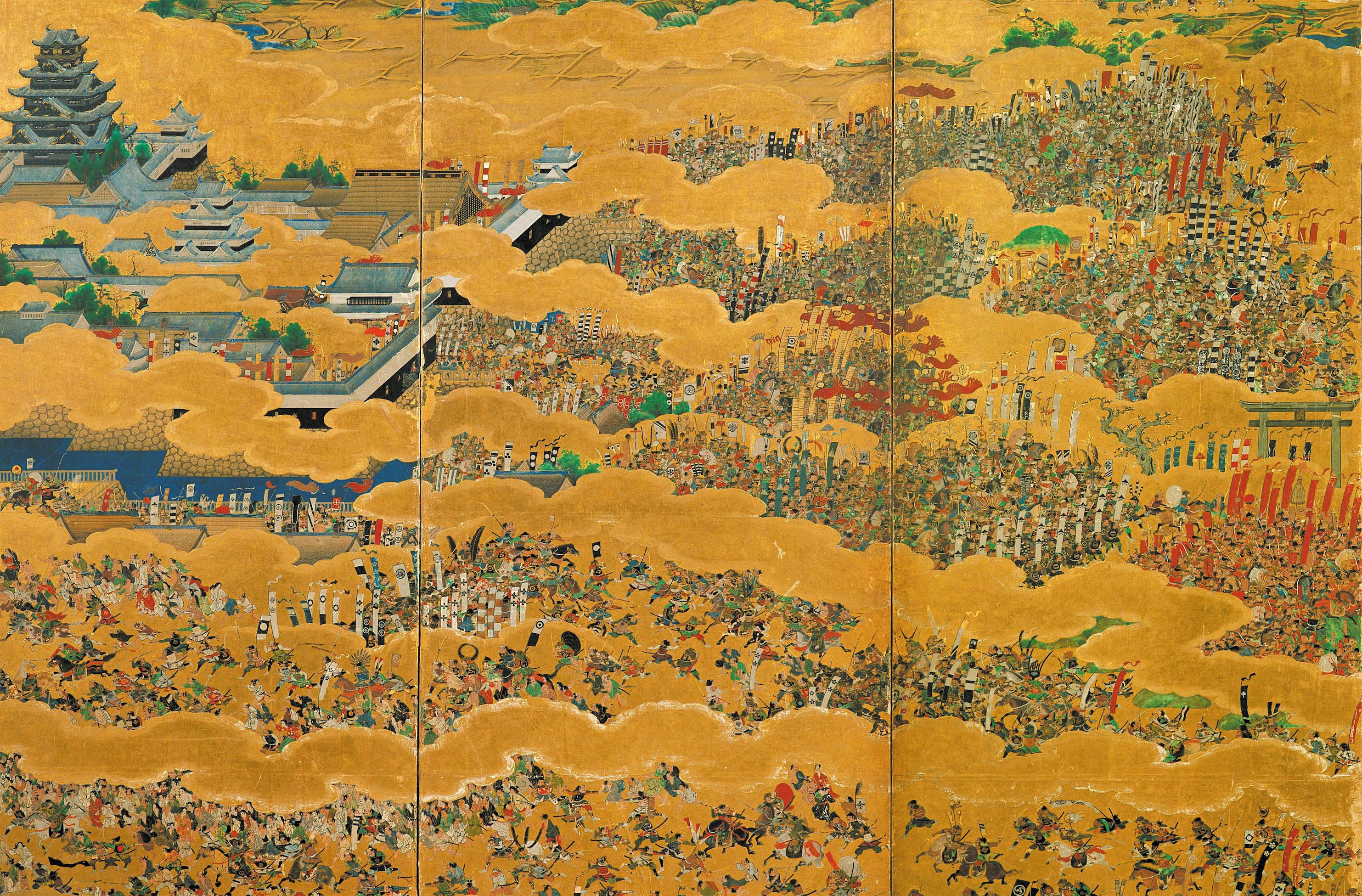 The Summer Battle of Osaka Castle. Panel screen (partial)